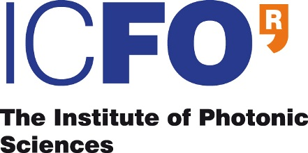 ICFO logo